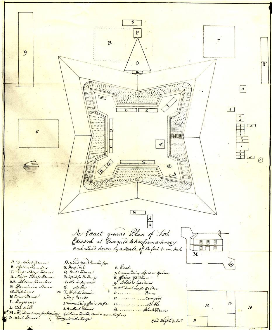 An Exact Plan of Fort Edward at Pesaquid, 1757 (William Clements Library, Ann Arbor, Michigan), Fort Edward, Nova Scotia, Canada